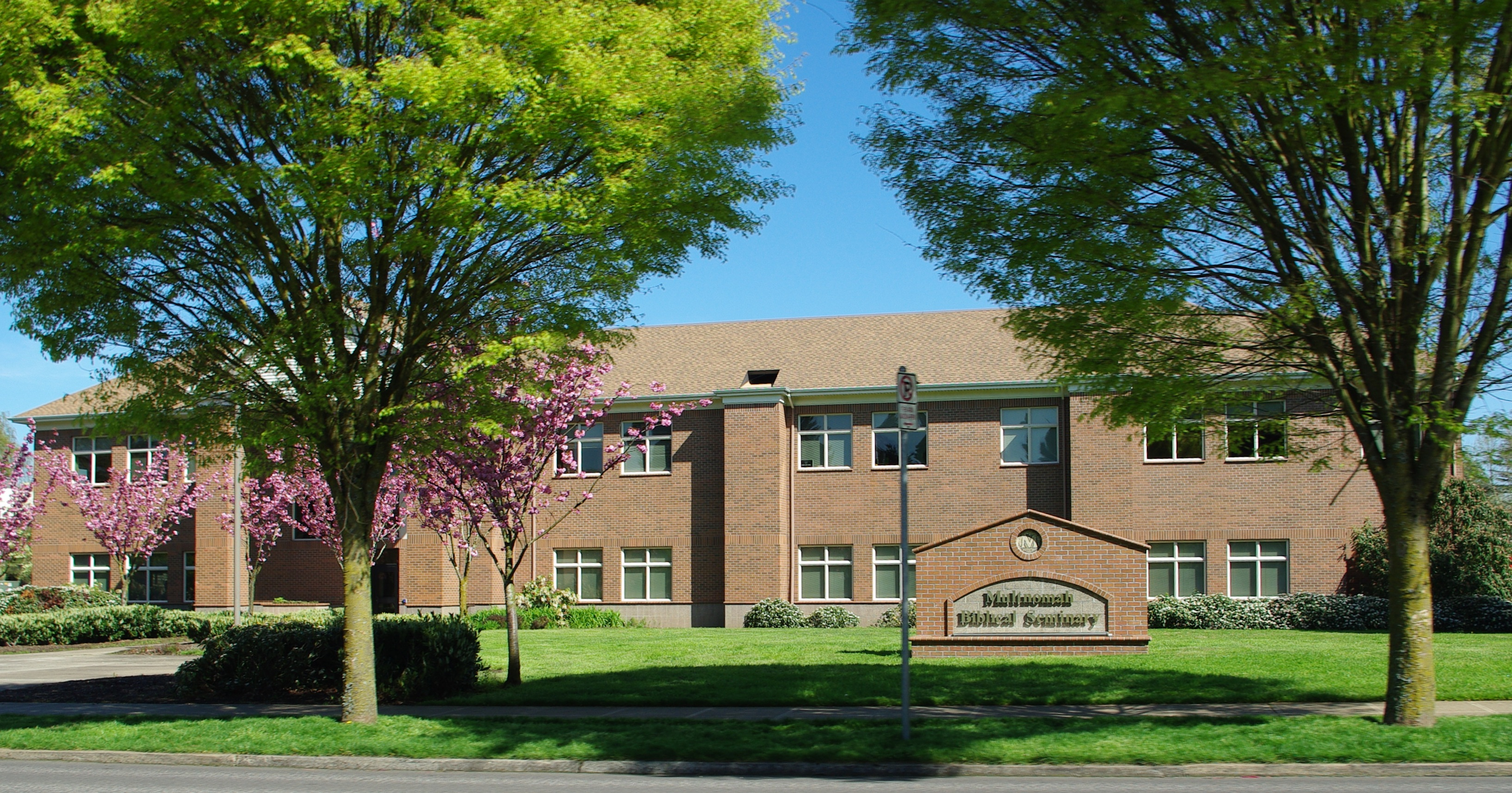 Biblical Seminary at Multnomah University in Portland, Oregon.